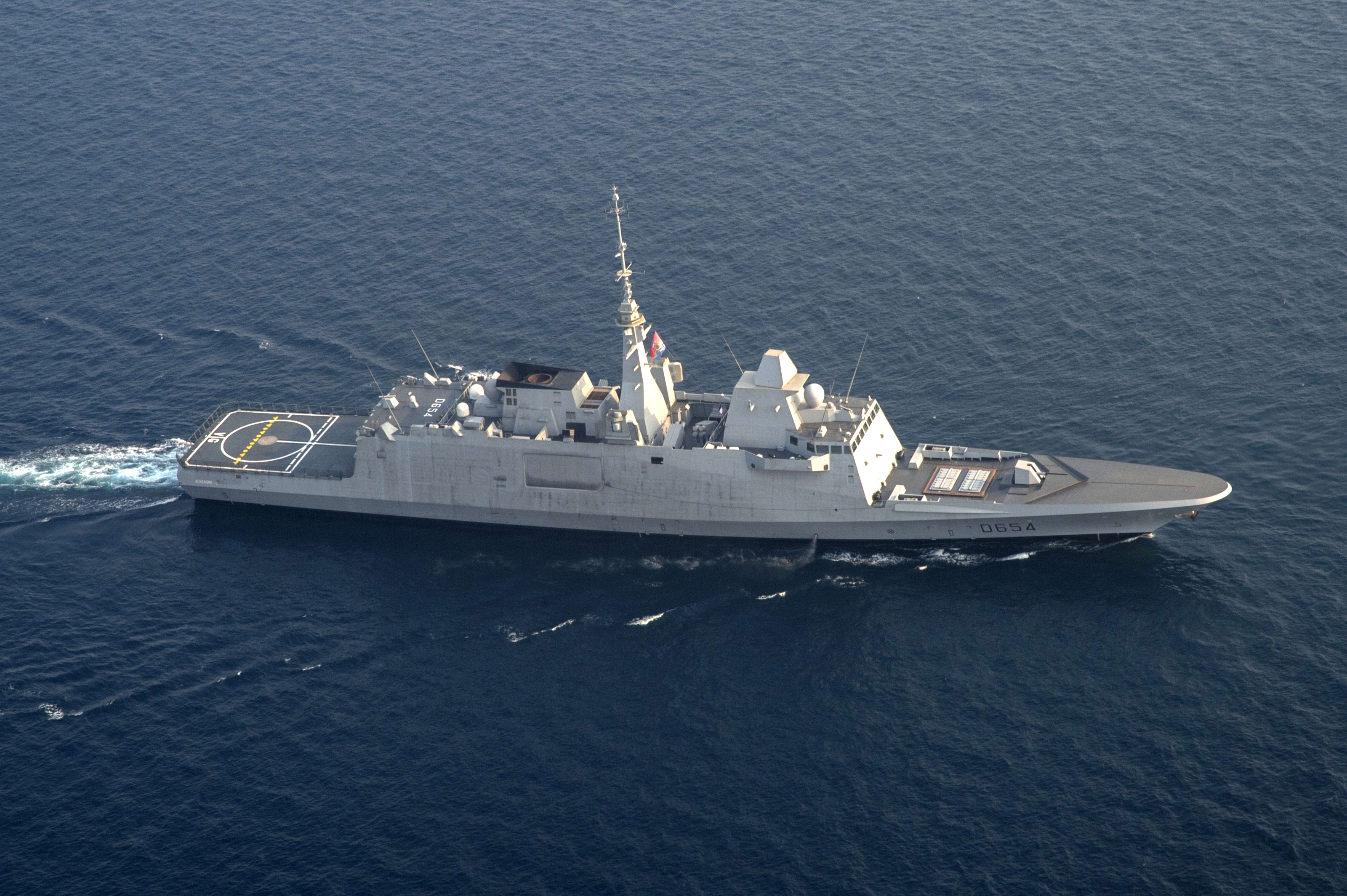 The French Marine Nationale Aquitaine-class anti-submarine warfare destroyer Auvergne (D654) underway in the Arabian Gulf on 19 September 2017. Auvergne was operating with the U.S. Navy's Nimitz Carrier Strike Group to enhance interoperability between partner nations.